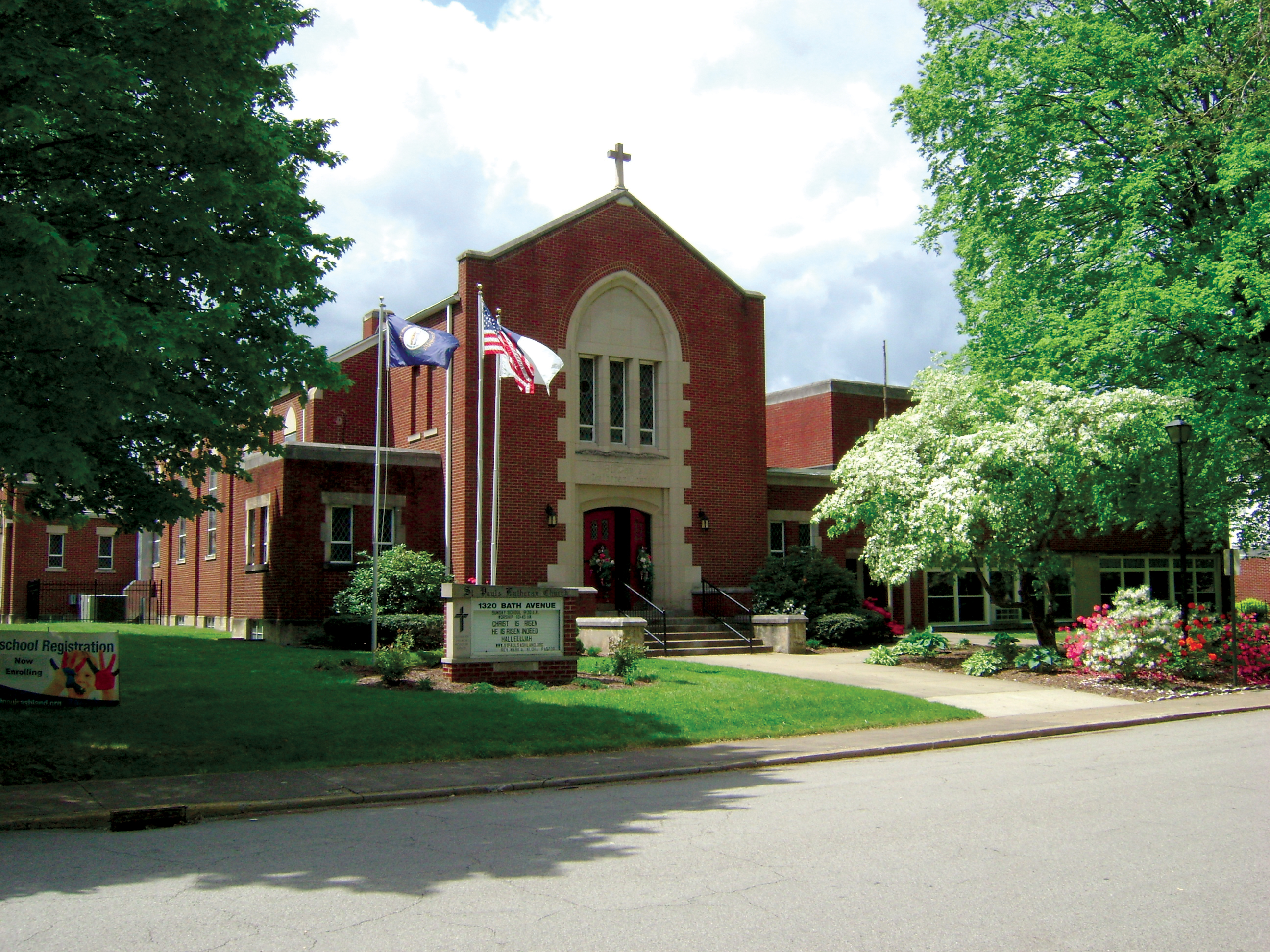 St. Paul's Lutheran Church - Ashland, KY. Taken in 2010.